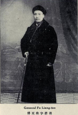 Fu Liangzuo, Qingjie (1887 - 1926)